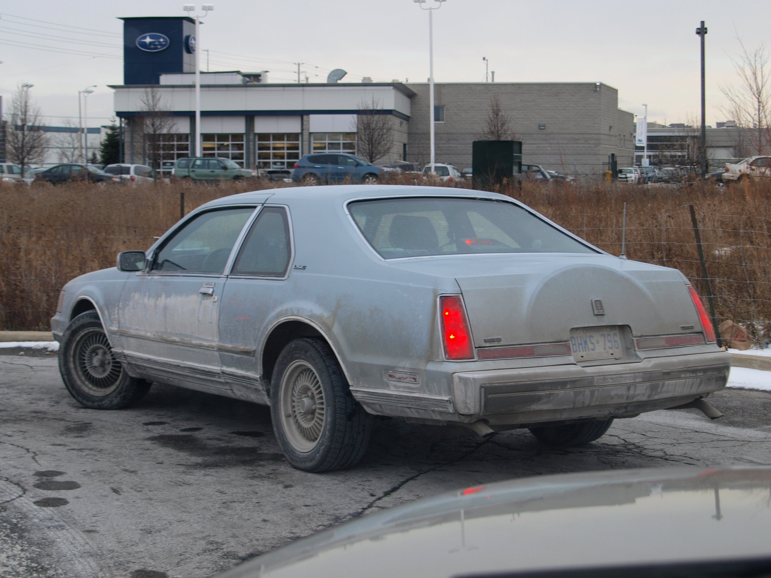 Driving on salty roads definitely makes it hard to have a clean car...